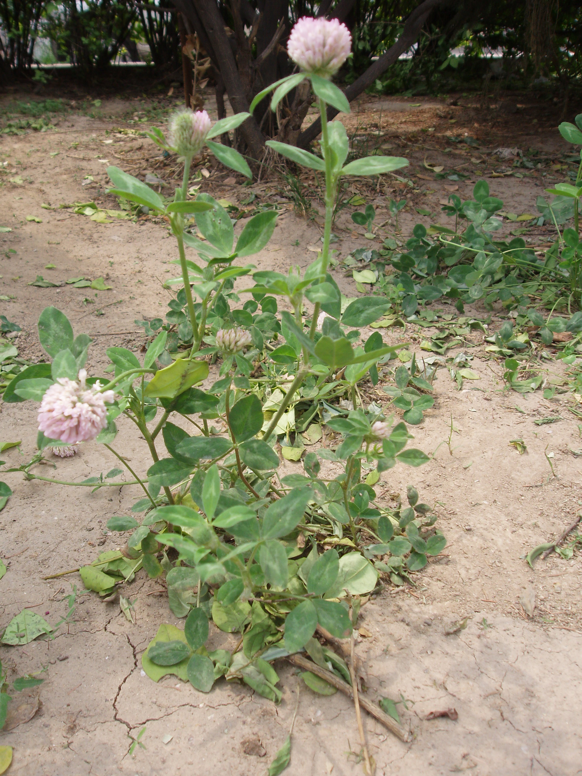 Cowgrass